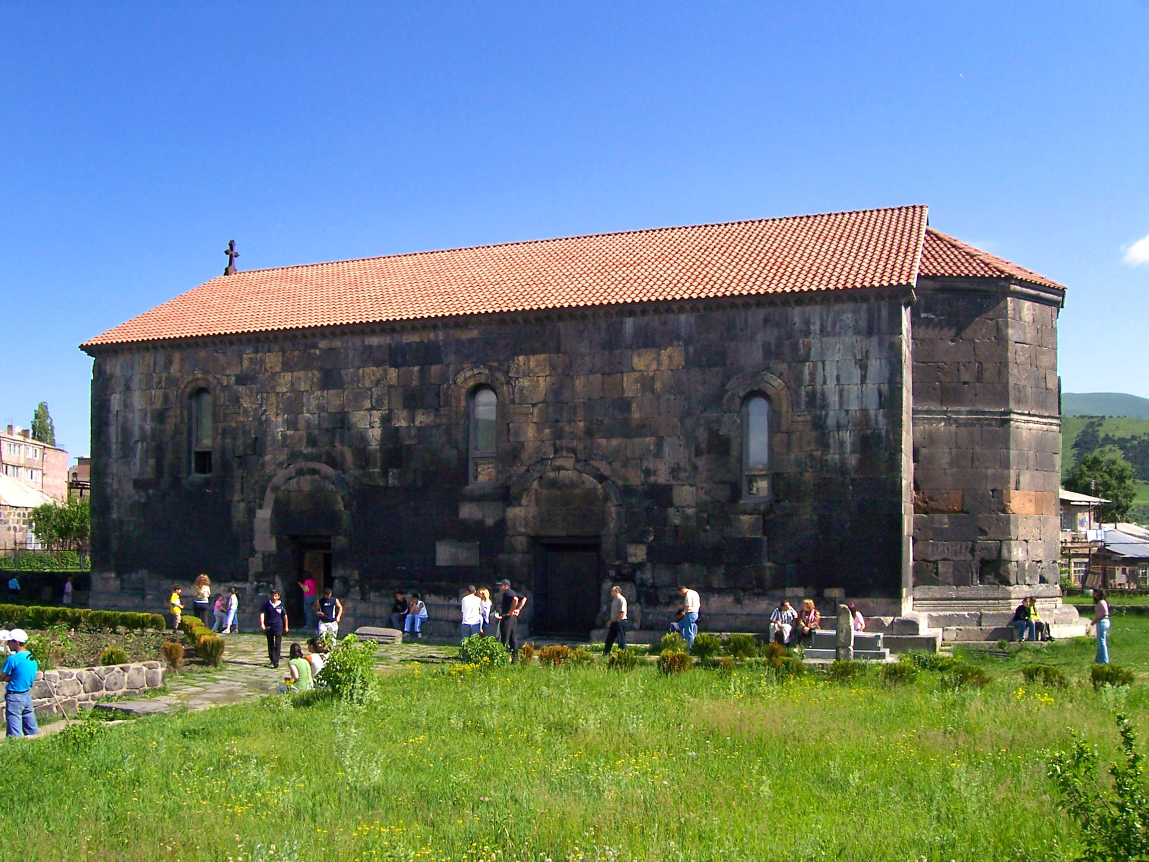 Holy Sign of Cross Church of Aparan (4th century)